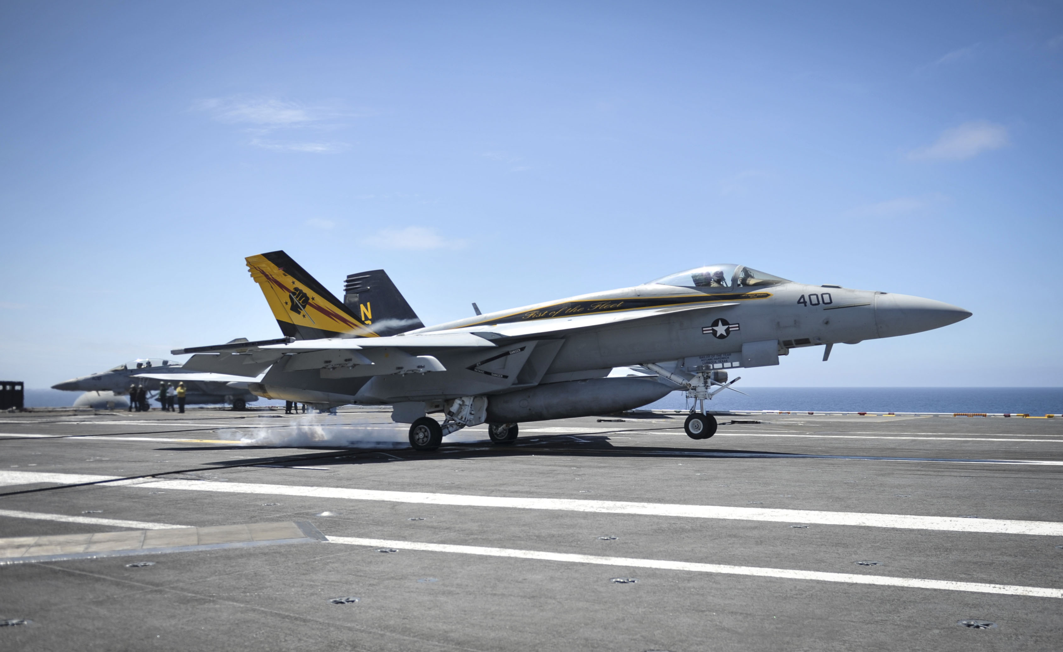 A U.S. Navy Boeing F/A-18E Super Hornet assigned to Strike Fighter Squadron 25 (VFA-25) "Fist of the Fleet" lands on the flight deck of the aircraft carrier USS Nimitz (CVN-68) in the Pacific Ocean. Nimitz was underway conducting routine operations and training exercises.